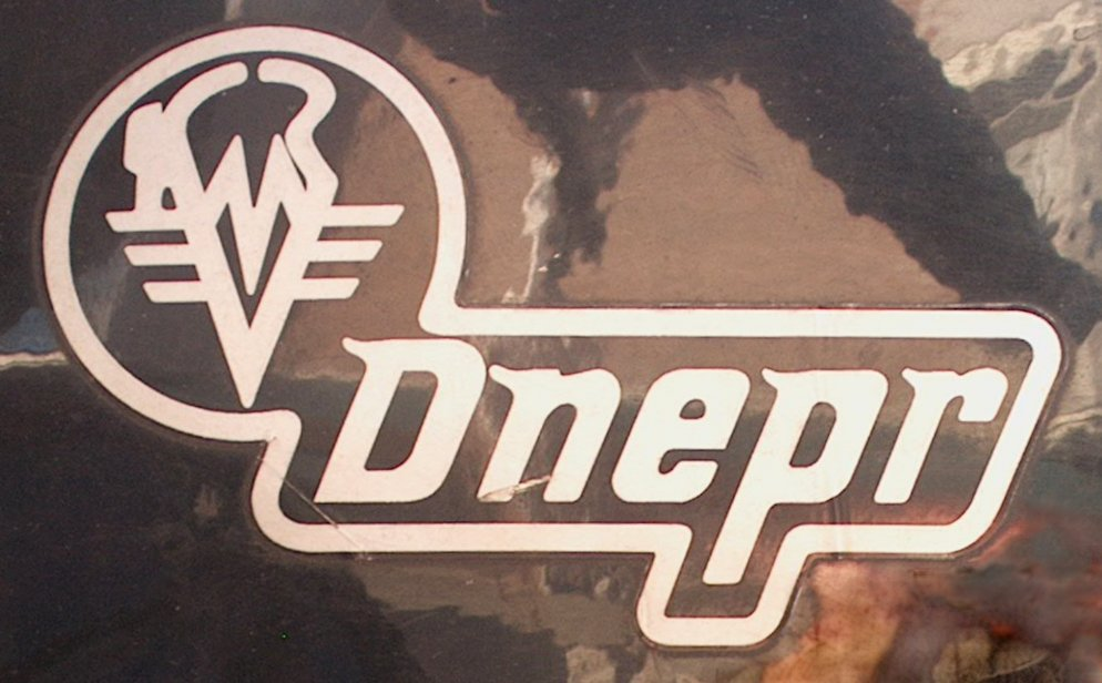 Dnepr Motorcycle